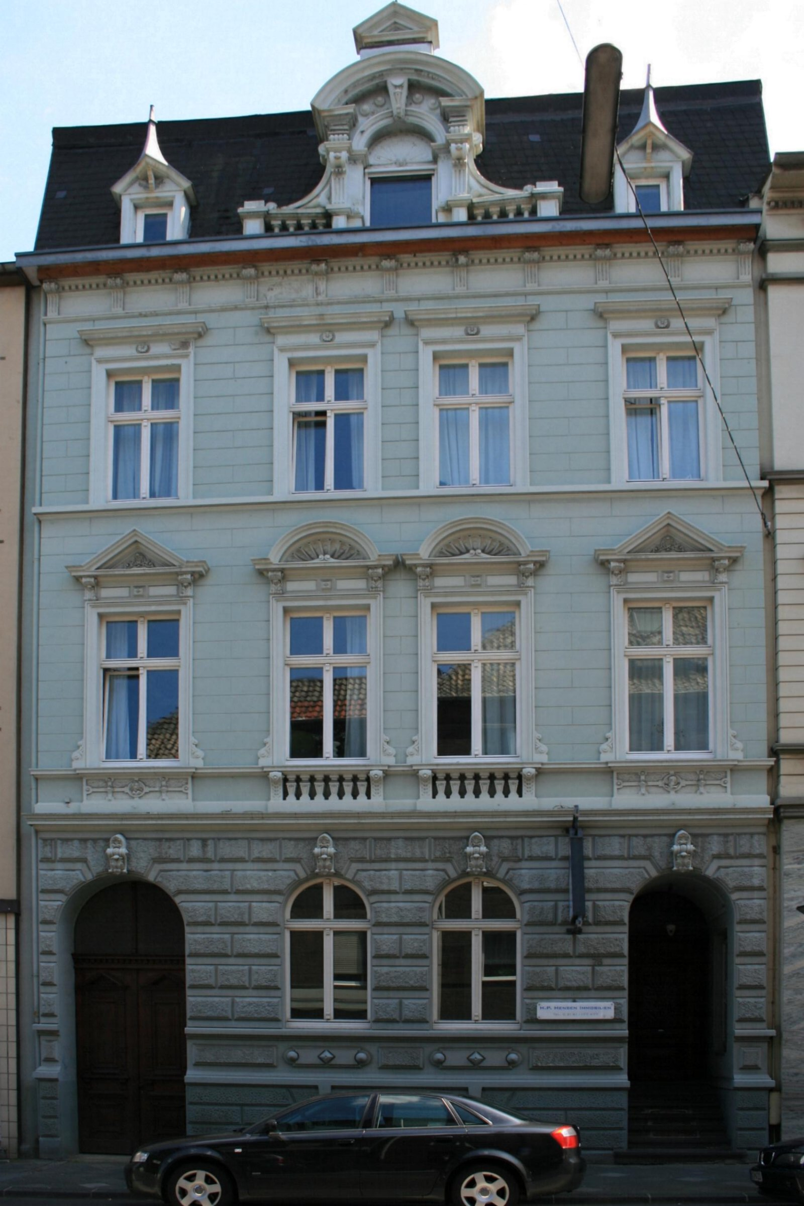 Cultural heritage monument No. K 013 in Mönchengladbach